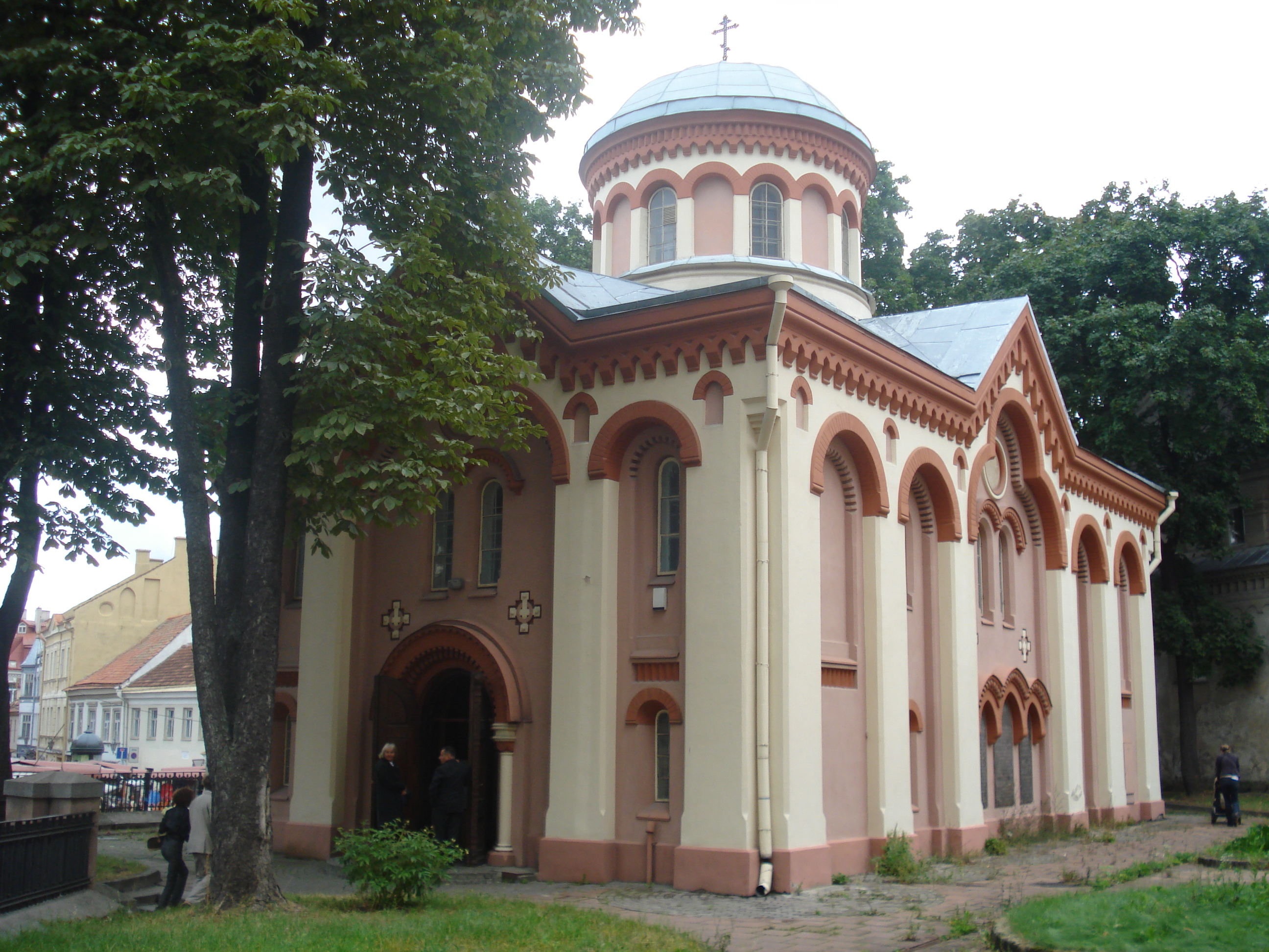 Russian Orthodox church of St. Parasceve (Didžioji g. 2)